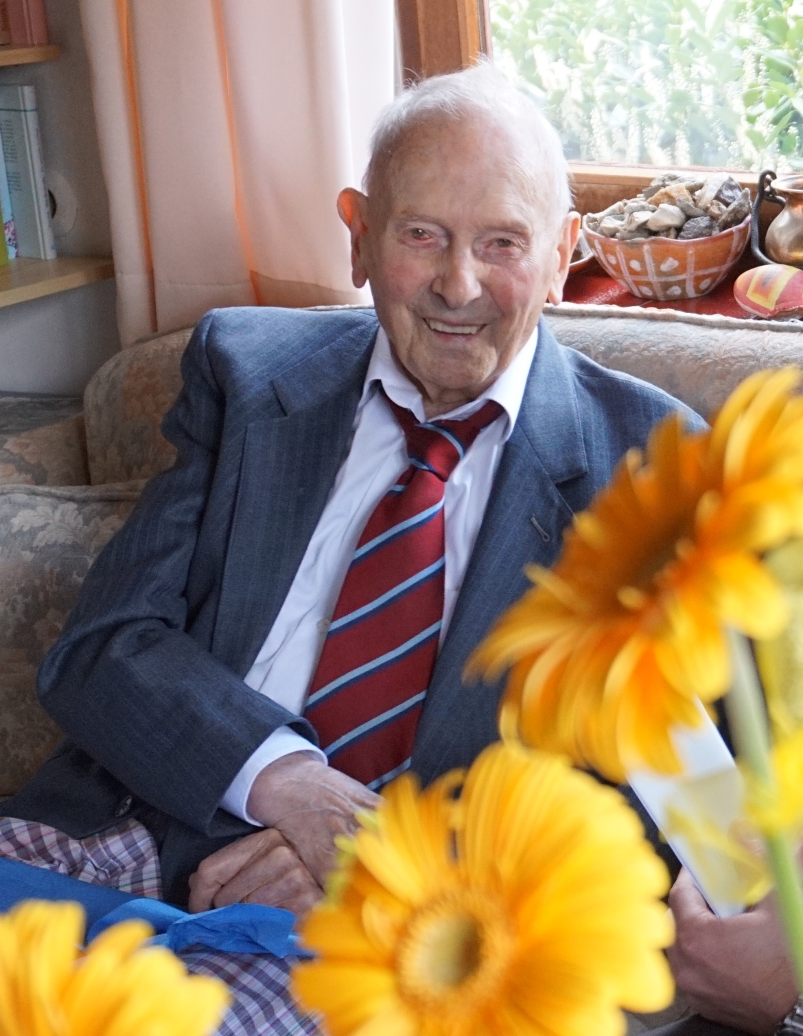 Professor Dr. rer. nat. Dr. h.c. Karl Rawer at his 104. birthday in 2017